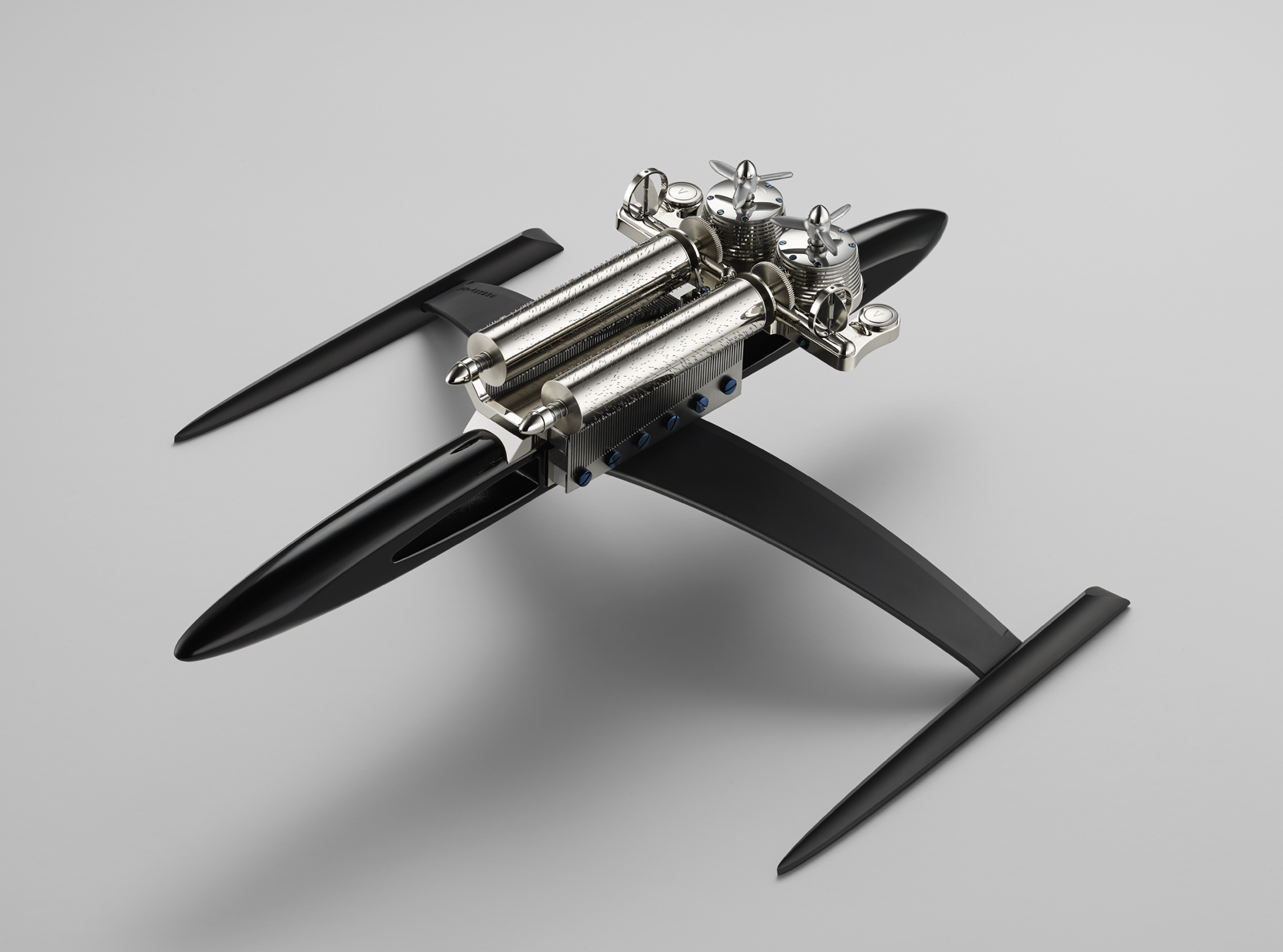 MB&F MusicMachine 1 Black